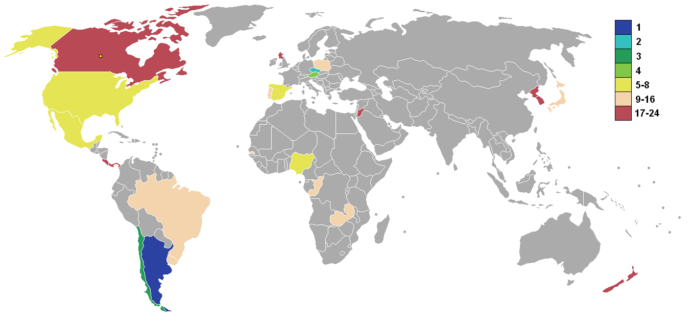 2007 FIFA U-20 World Cup final team ranking, showing: 1st (dark blue) 2nd (light blue) 3rd (dark green) 4th (light green) Quarterfinals (yellow) Round of 16 (peach) Group stage (red) Yellow square is host nation (Canada).